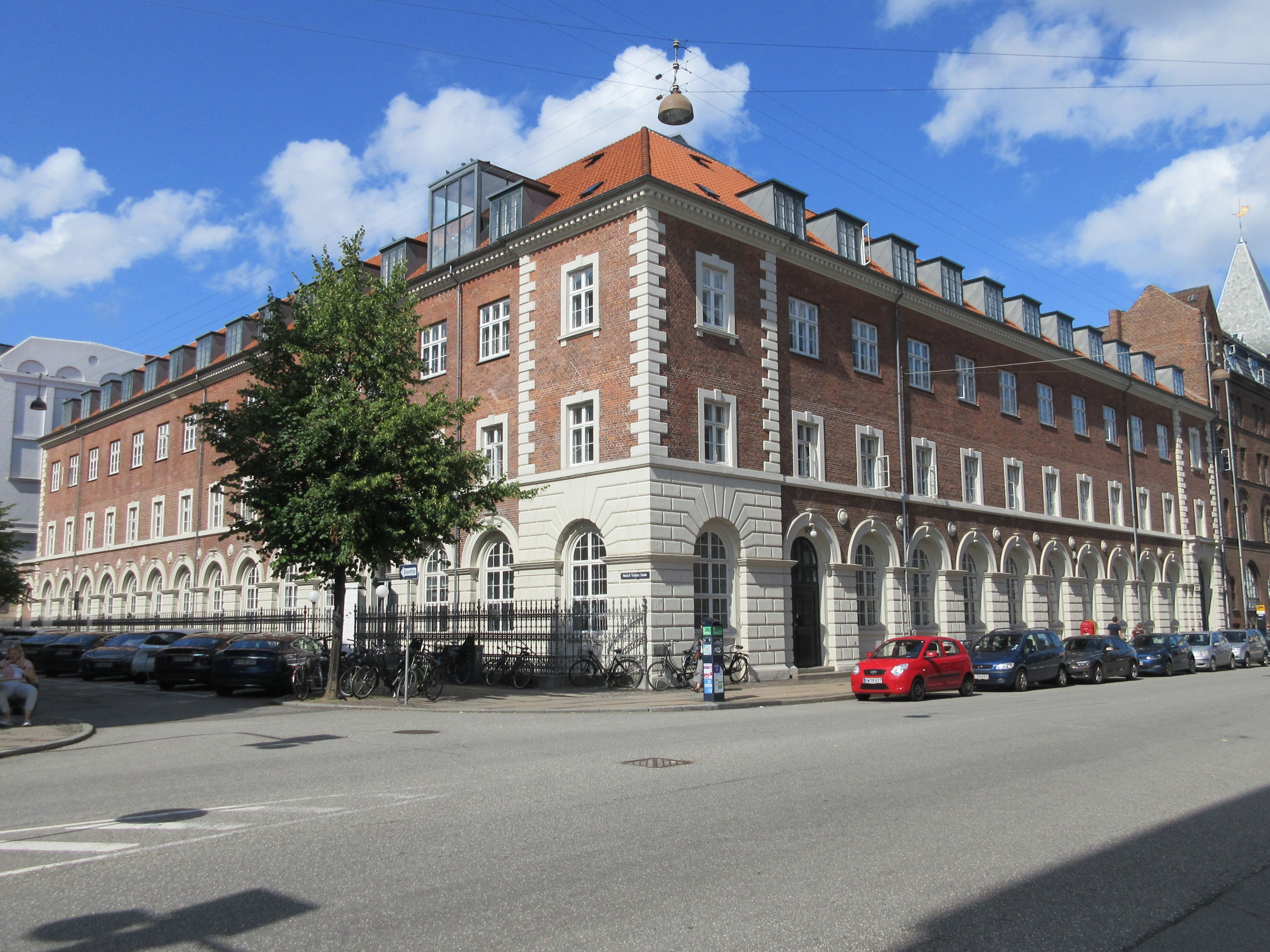 The former Royal Mint (Den Kgl Mønt) in the Gammelholm neighbourhood of central Copenhagen, Denmark